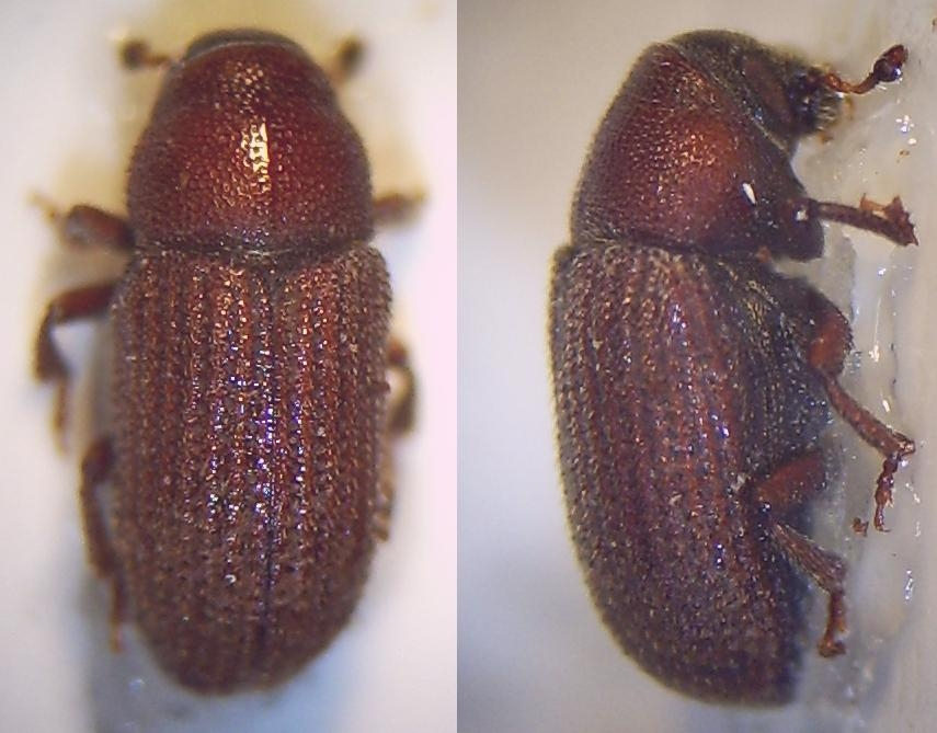 01_Hylurgops_palliatus_Imago.